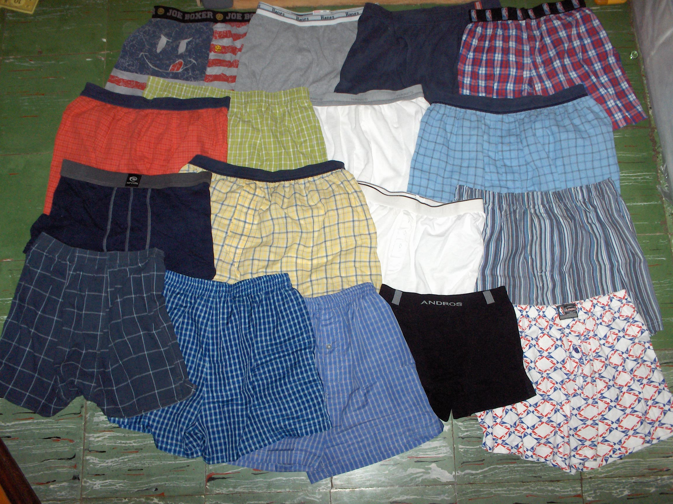 I put some boxers in the floor